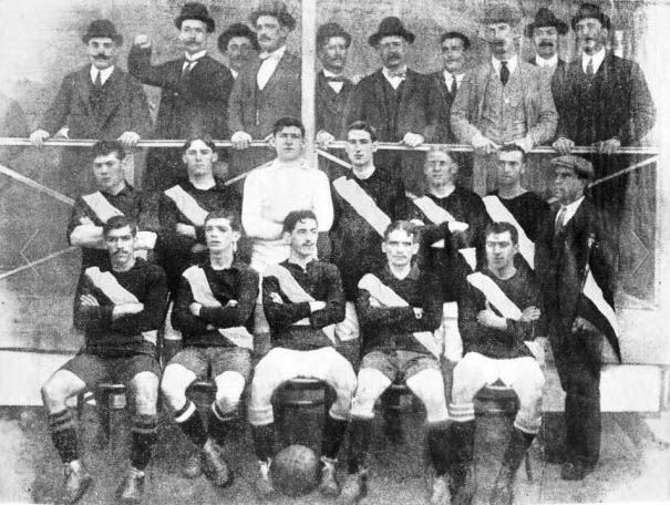 Team of Boca Juniors, when the club played in the second division. Below are the managers of the club: Francisco Basurto, Pablo Giúdice, Alfredo Biondi, Santiago P. Sana, Atilio Banchero, Juan R. Bricchetto, Juan Priano, Guillermo Denegri, Benito Oneto and Ludovico J. Dollenz. Players are: (seated): Ramón Lamique, Miguel Valentini, Emilio Bonatti, Luis Cerezo, Agustín Angoti. (standing): Máximo Pierallini, Juan Garibaldi, Lorenzo Etchart, Amílcar Spinelli, Francisco Taggino, Anapodito García. The linesman is Pascual Valente.